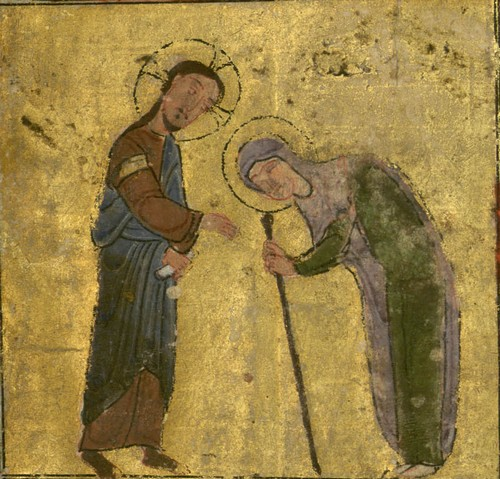 Evangéliaire arabe, episode de la guerison de la femme courbée